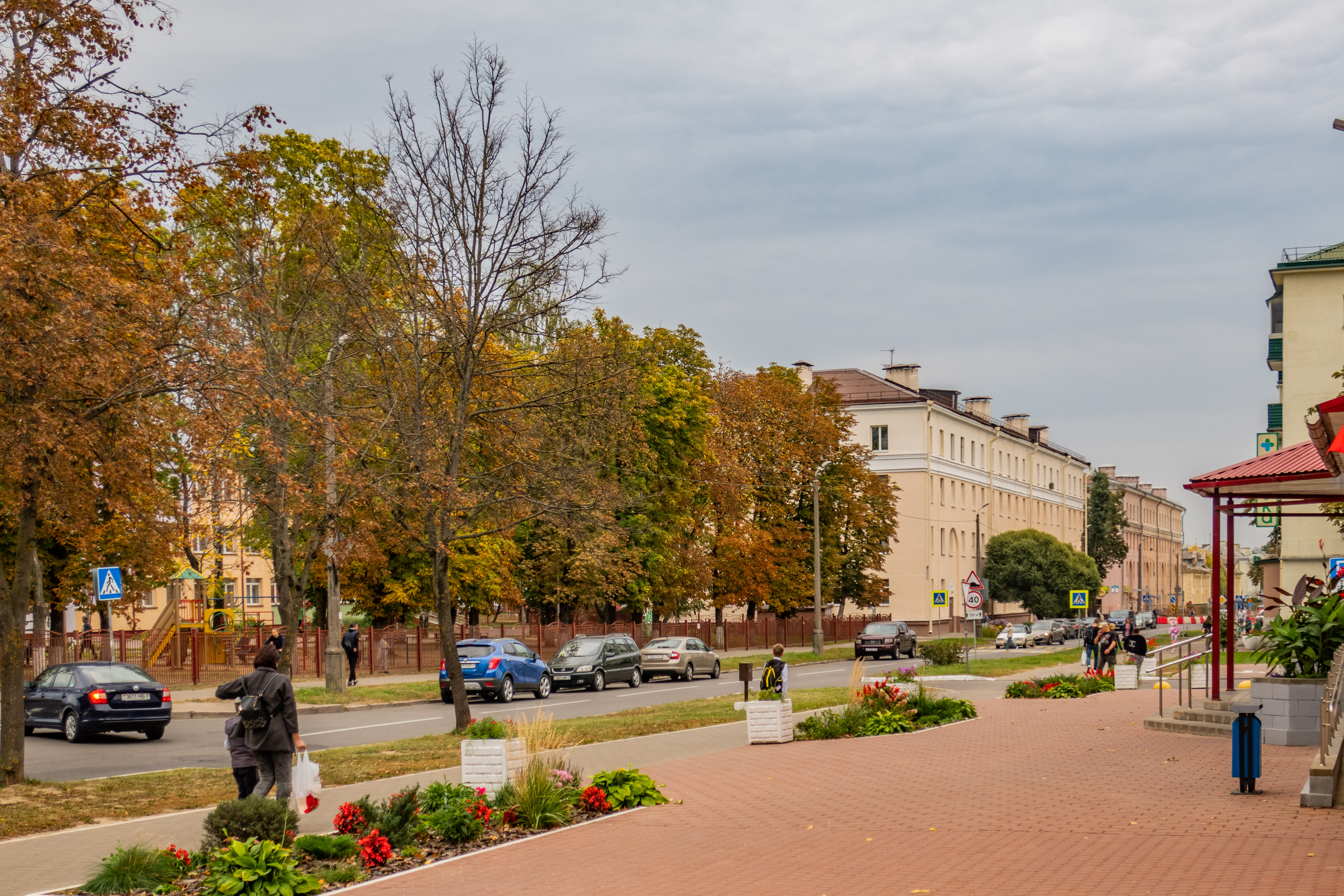 Fabryčnaja street. Minsk, Belarus